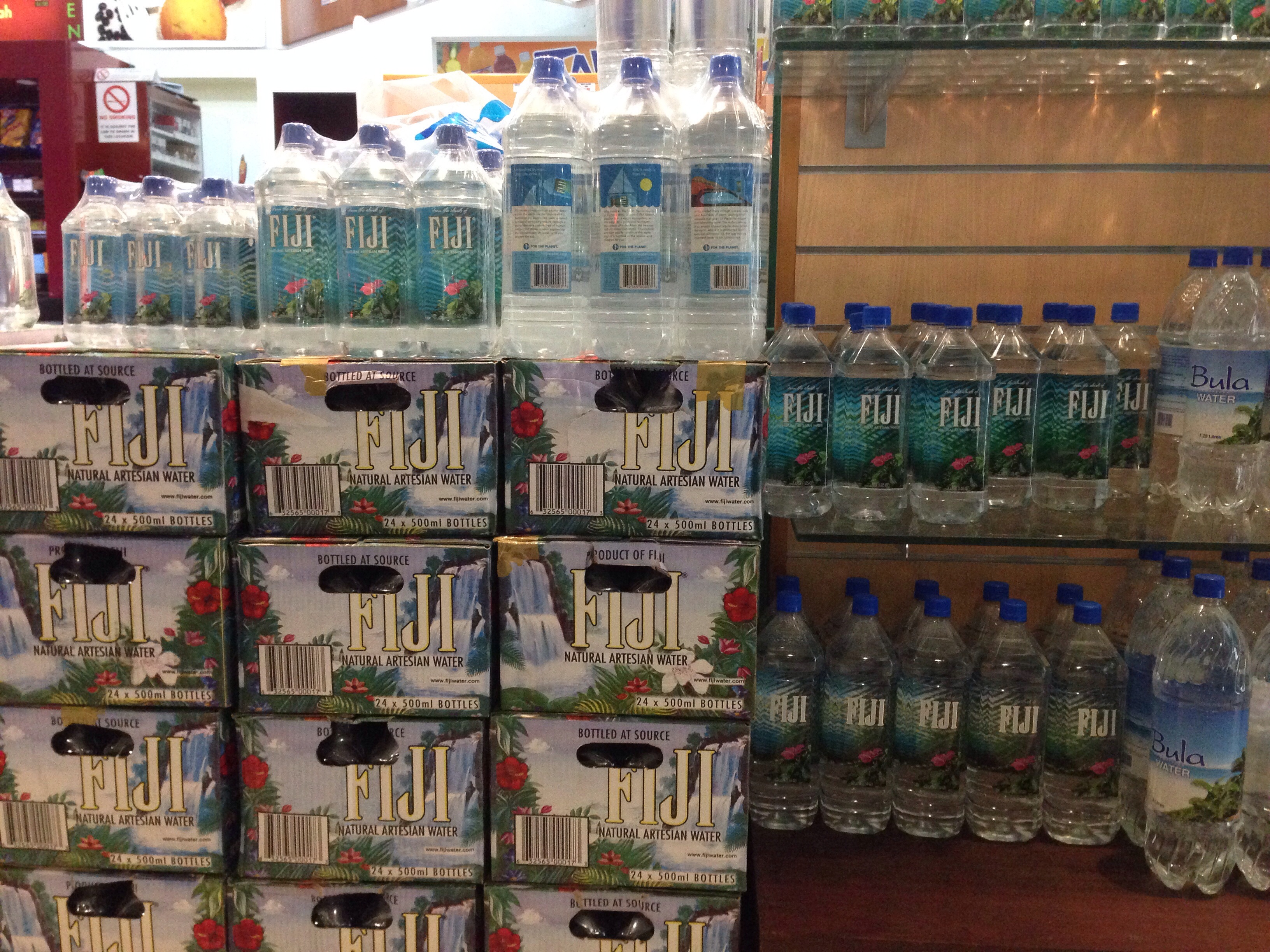 Fiji Water at an airport